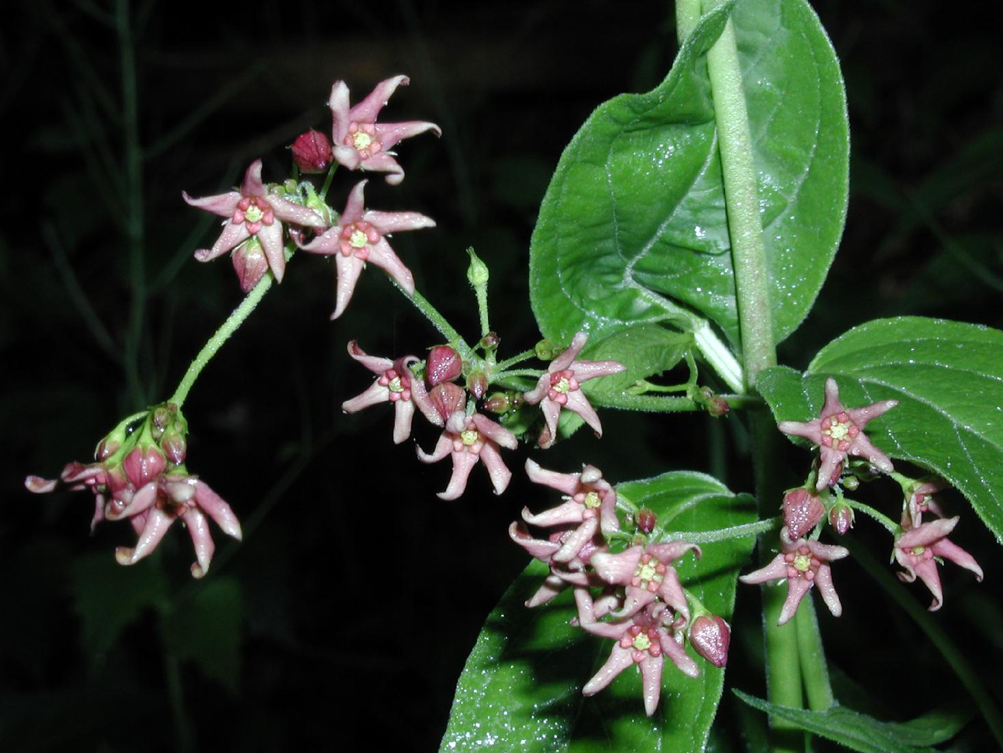 Dog-strangling vine, European swallowwort (Vincetoxicum rossicum) (Kleopov) Barbarich